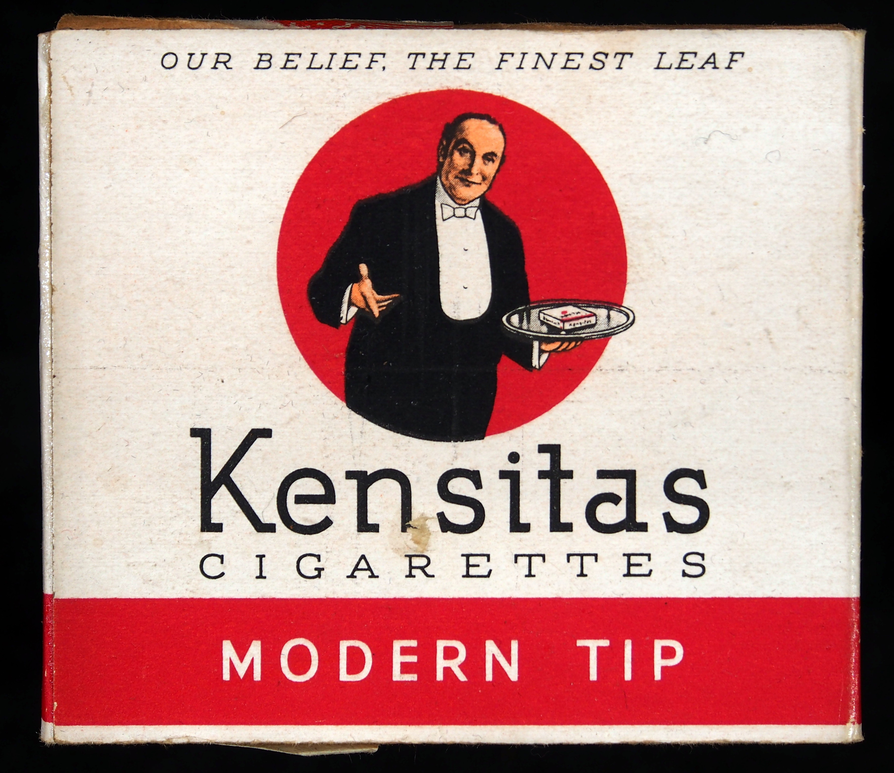 Very old packaging of a product that is not produced and not sold any more.